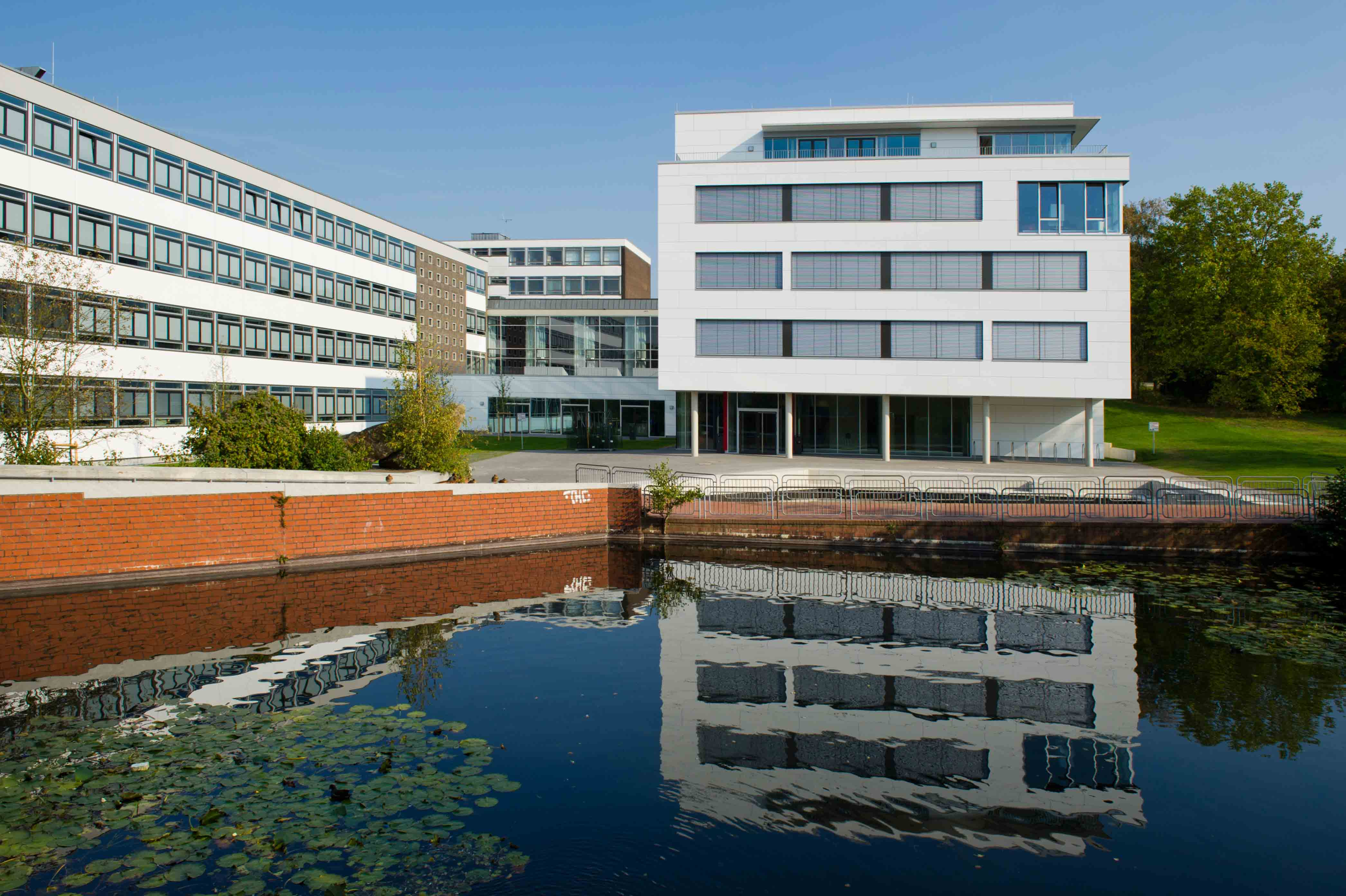 Gebäude Fakultät IuI, Albrechtstraße